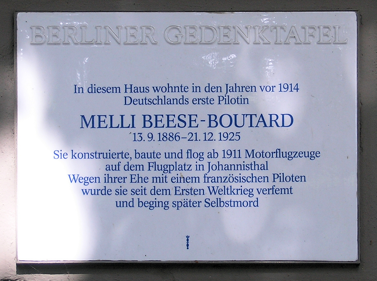 Berlin memorial plaque, Melli Beese, Sterndamm 82, Berlin-Johannisthal, Germany